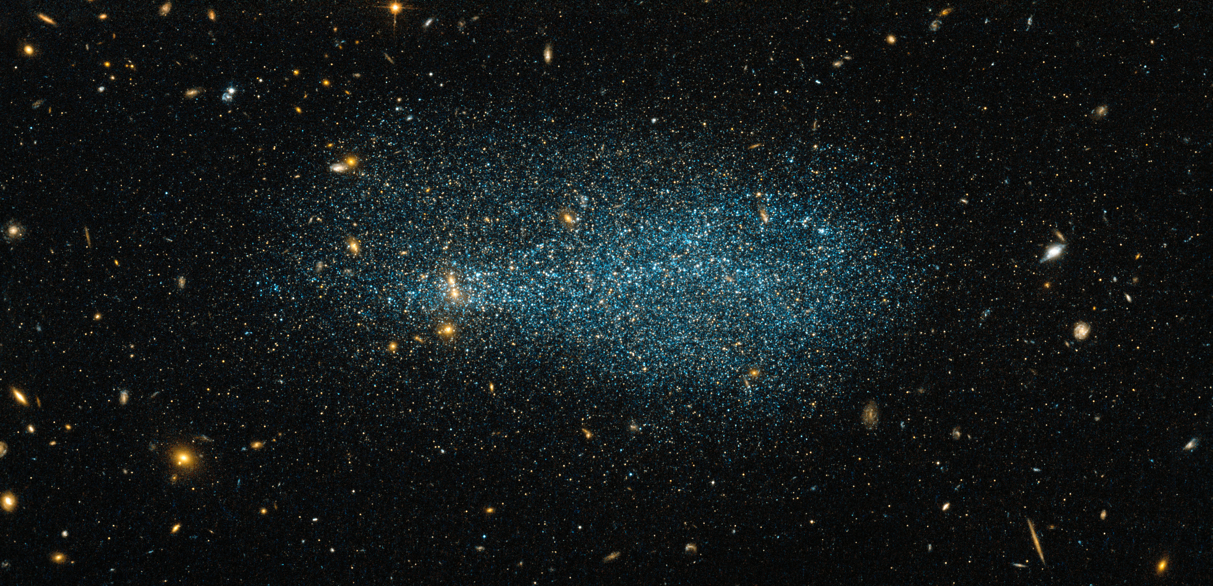 The glittering specks in this image, resembling a distant flock of flying birds, are the stars that make up the dwarf galaxy ESO 540-31. Captured in this new image from the NASA/ESA Hubble Space Telescope, the dwarf galaxy lies just over 11 million light-years from Earth, in the constellation of Cetus (The Whale). The background of this image is full of many other galaxies, all located at vast distances from us. Dwarf galaxies are the among the smaller and dimmer members of the galactic family, typically only containing around a few hundred million stars. Although this sounds like a large number, it is small when compared to spiral galaxies like our Milky Way, which are made up of hundreds of billions of stars. A version of this image was entered into the Hubble’s Hidden Treasures image processing competition by contestant Luca Limatola.